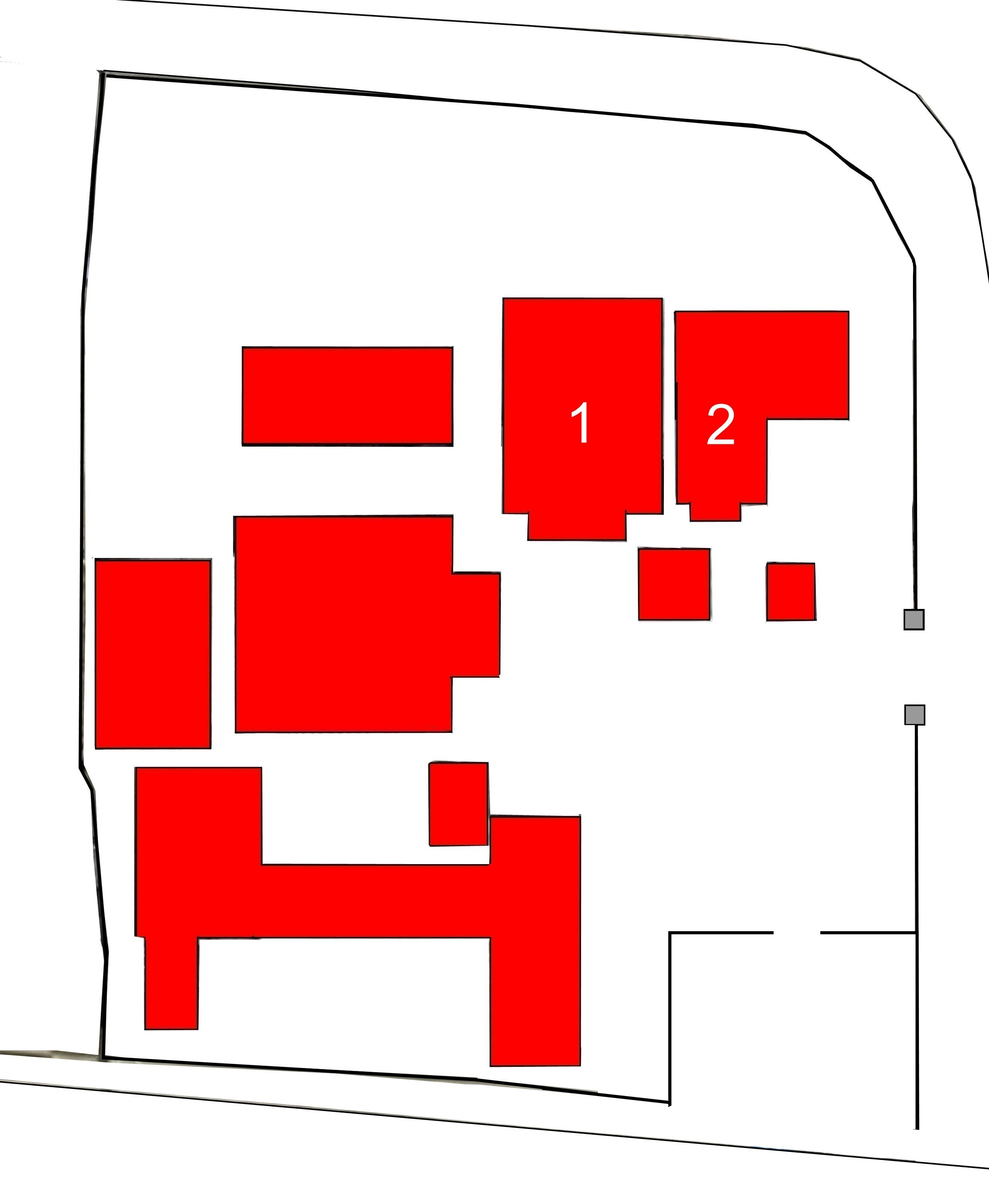 Layout of Hôju-ji temple at Saijô, Japan